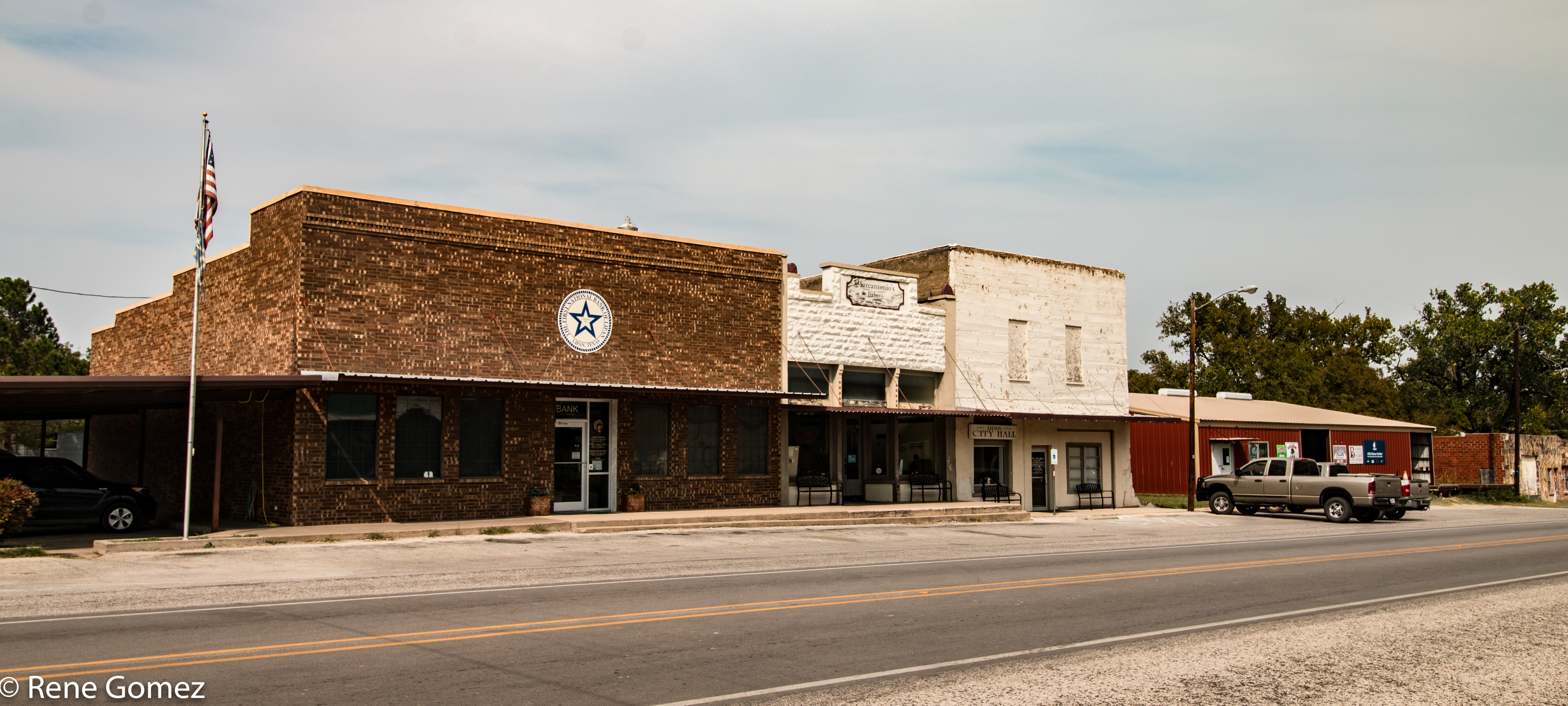 The town of Lipan, Texas